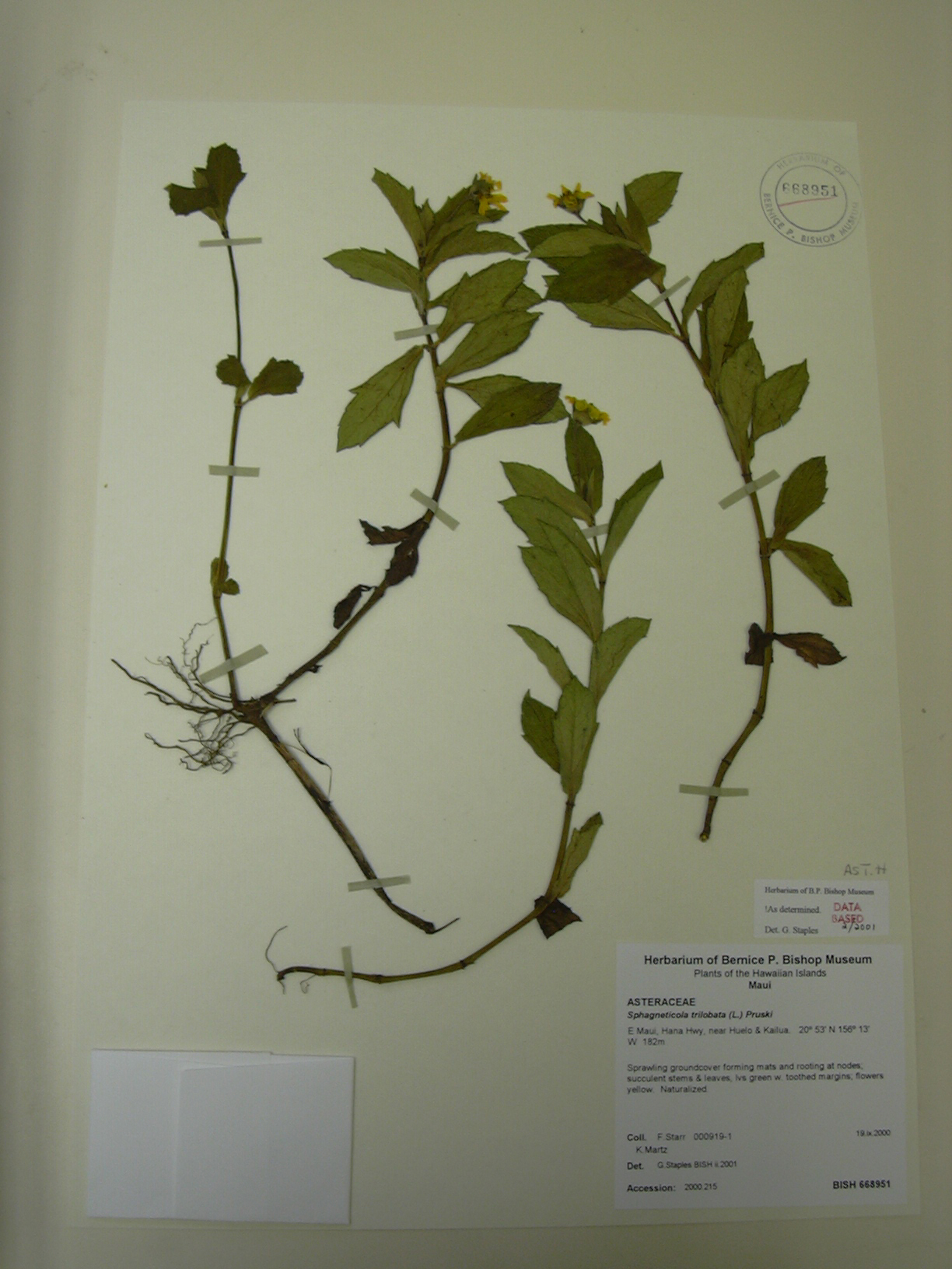 Sphagneticola trilobata (BISH specimen). Location: Maui, Hana Hwy